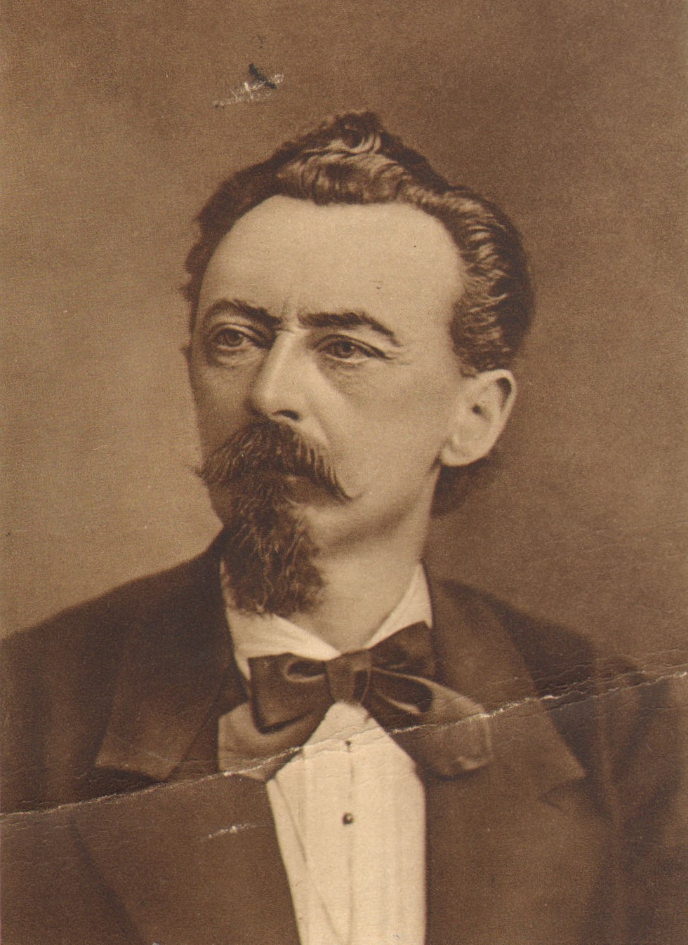 Photograph of Miroslav Tirš (1832-1884), Czech philosopher and founder of the Sokol movement (Prague, 1932). Srpski (latinica): Fotografija Miroslava Tirša (1832-1884), češkog filozofa i osnivača Sokolskog pokreta (Prag, 1932).